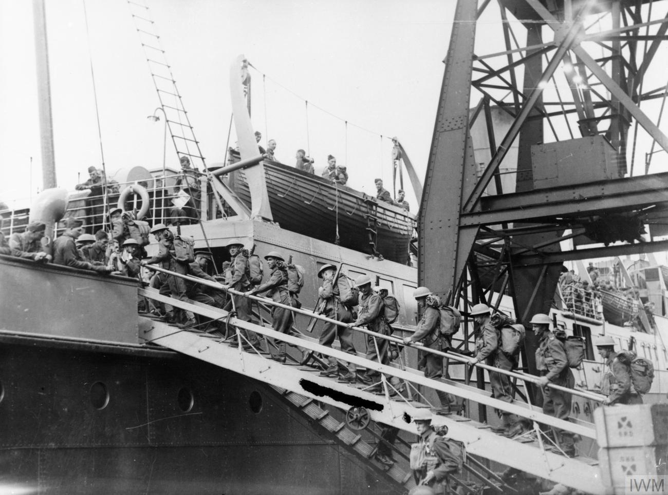 The British Army in the United Kingdom 1939-45 Troops from the first contingent of the British Expeditionary Force (BEF) embarking for France at Southampton, 5 - 9 September 1939.